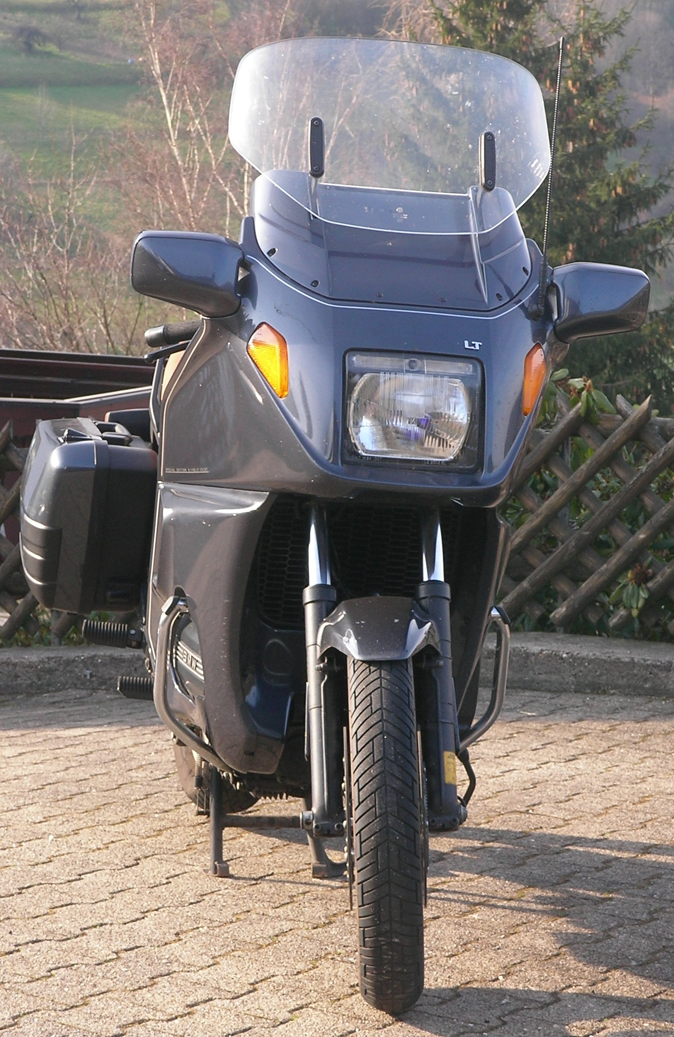 BMW K 1100 LT SE, Bj. 1994, front with adjustable windshield